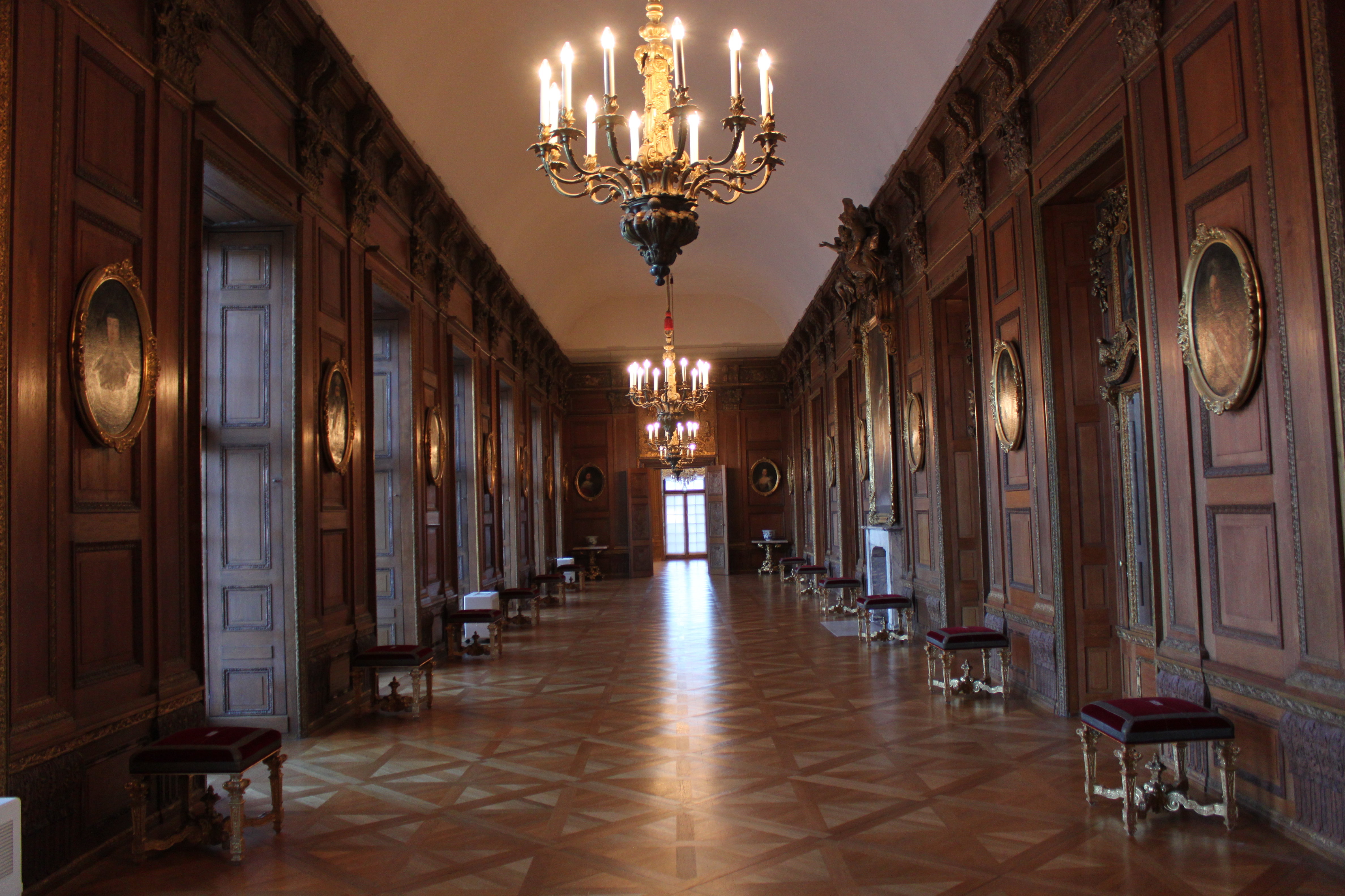 Old Gallery / Oak Gallery; Charlottenburg Palace, Berlin